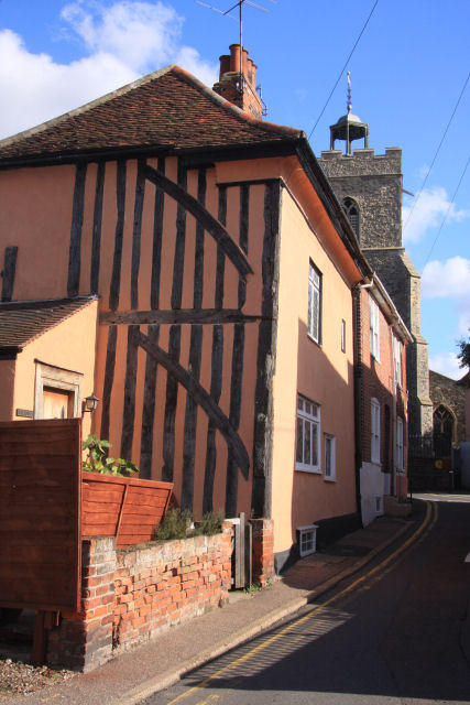 West Street, Wivenhoe These old houses are at the High Street end of West Street, with St Mary's Church behind.